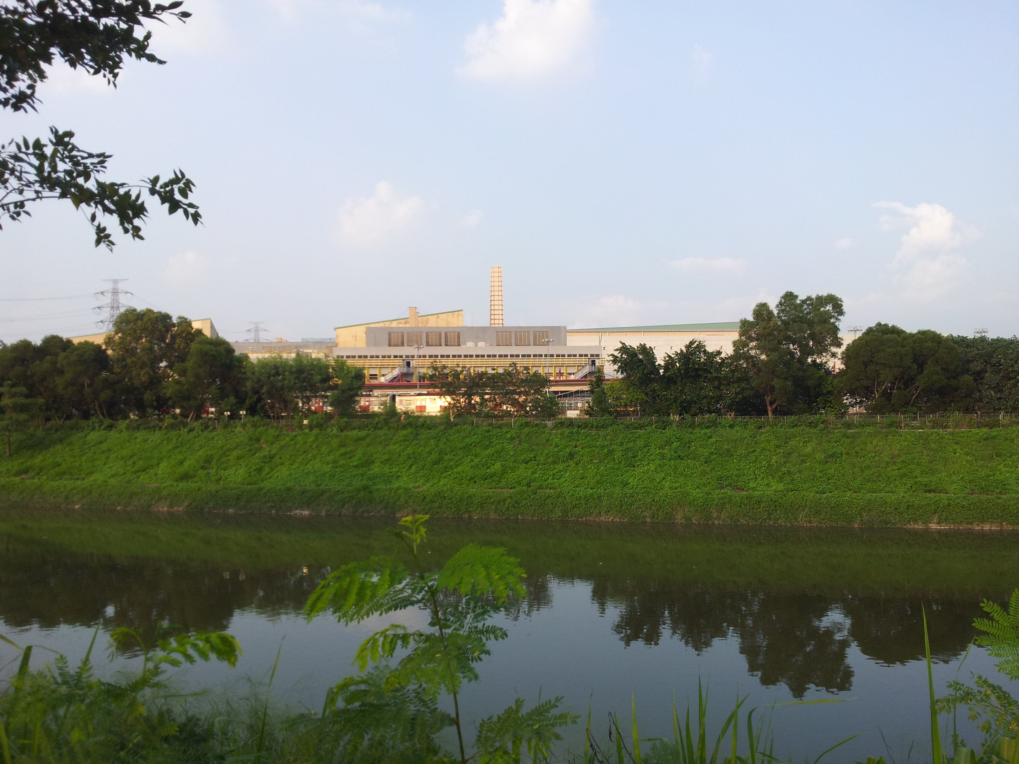 er train parked beside sheung shui slaughterhouse